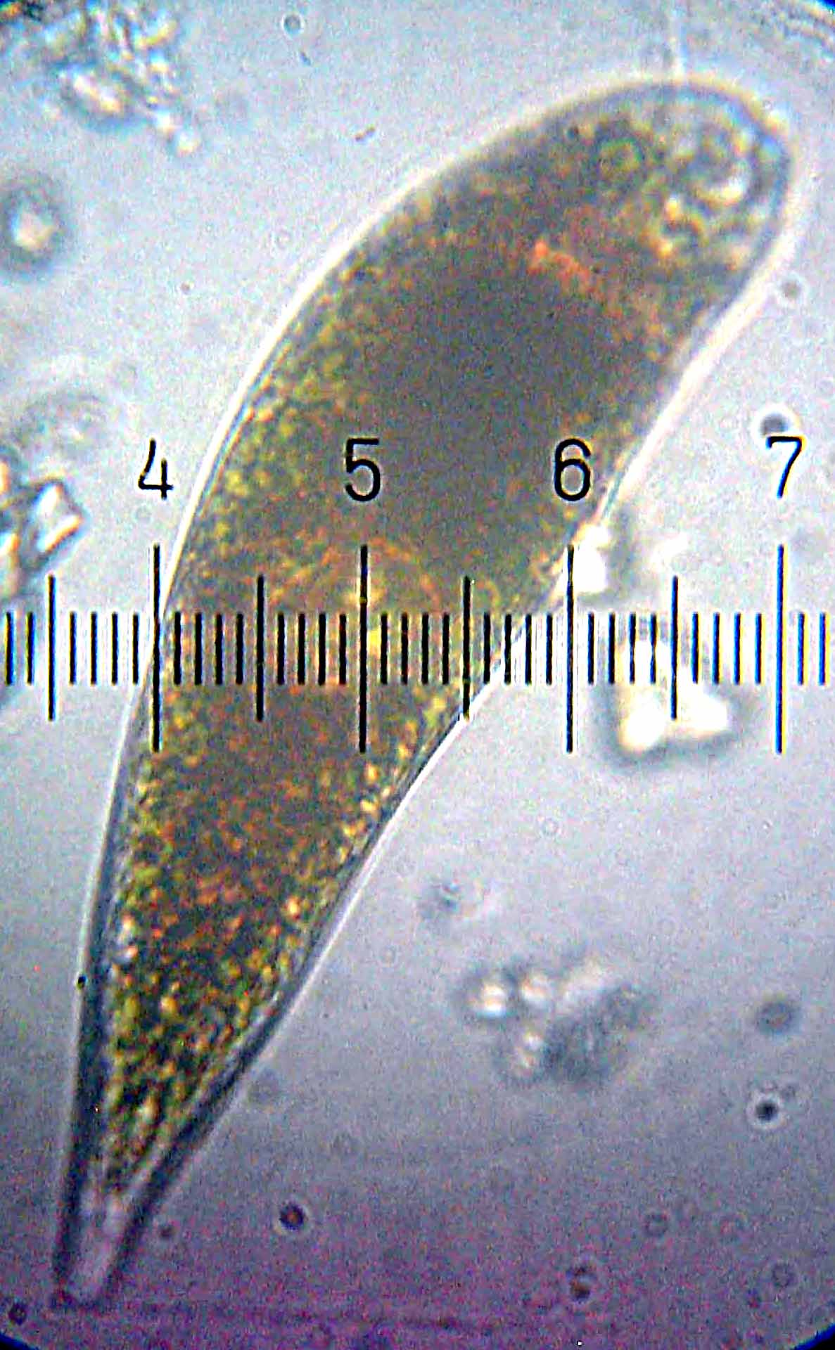 A Euglena.